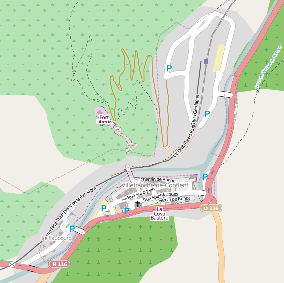 Map of Villefranche-de-Conflent